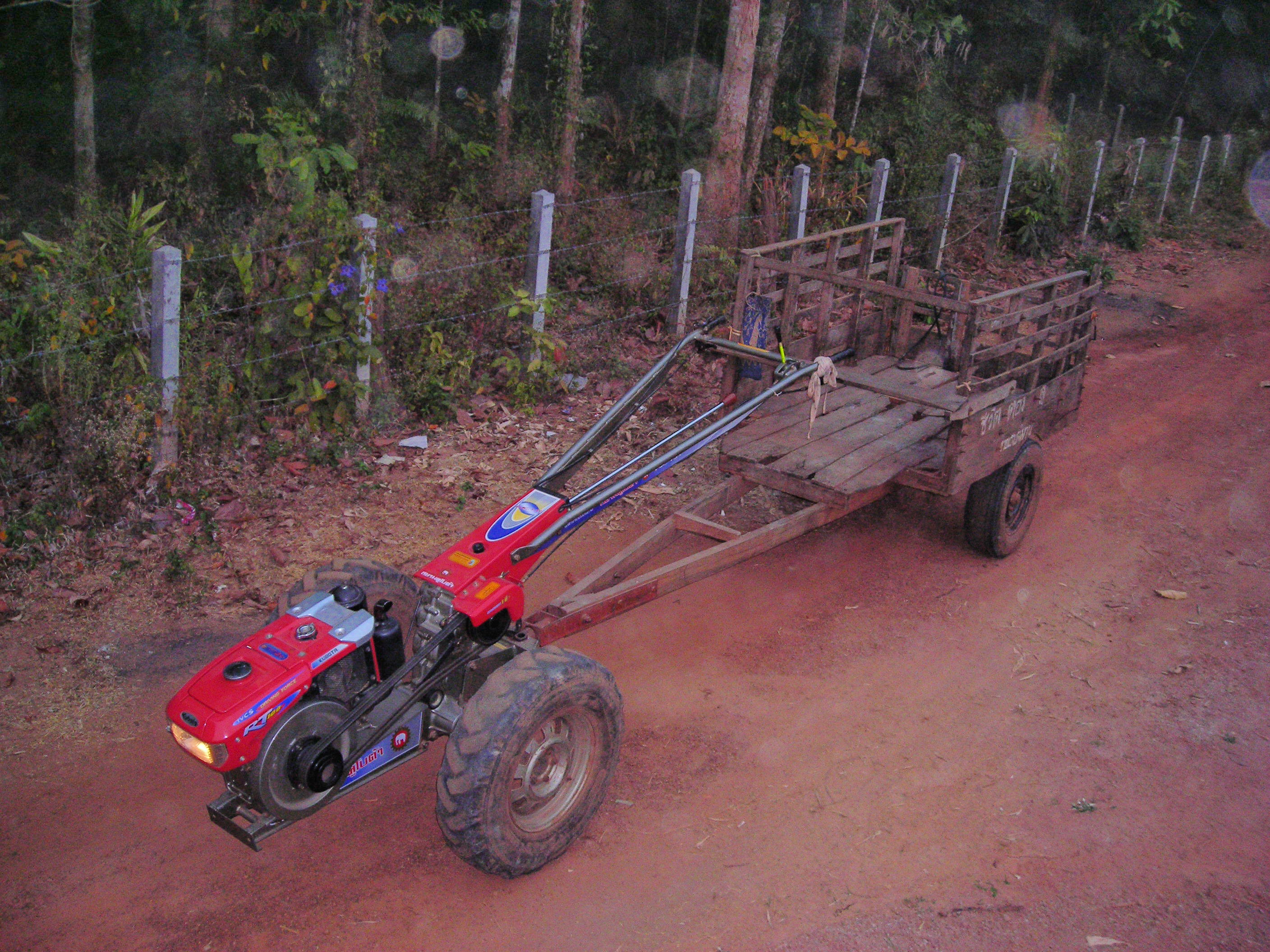 Rot Thaen - an Isaan-style tractor with one axle, seen in notheastern Thailand (Isaan)